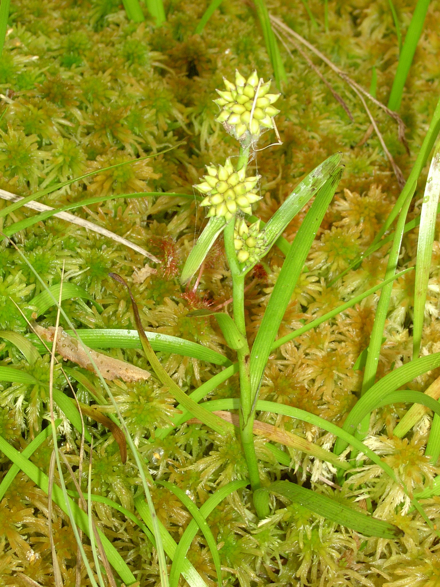 Sparganium minimum